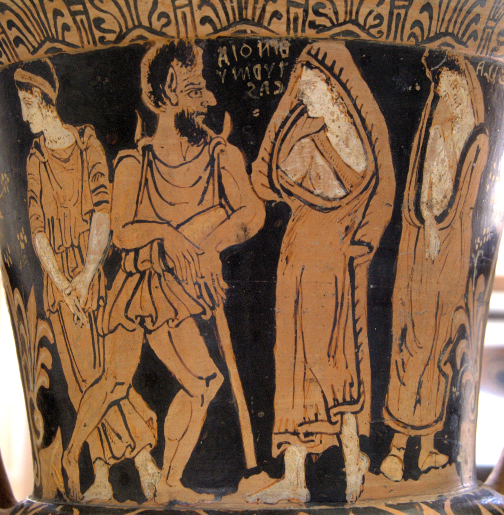 Charun (Etruscan demon of death) and dead souls. Side B from an Etruscan red-figure calyx-crater. End of the 4th century BC-beginning of the 3rd century BC.